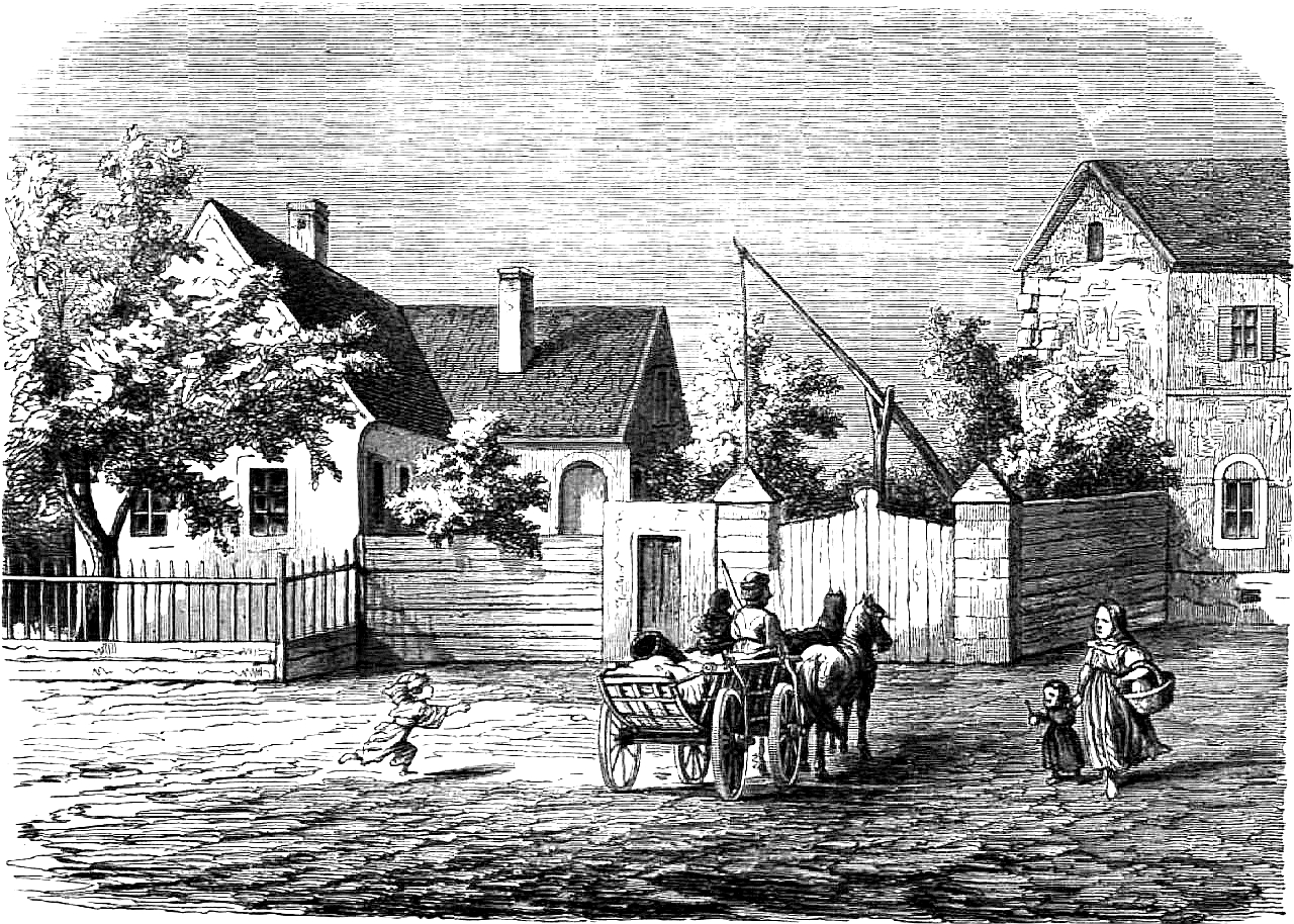 House of János Arany in Nagykőrös